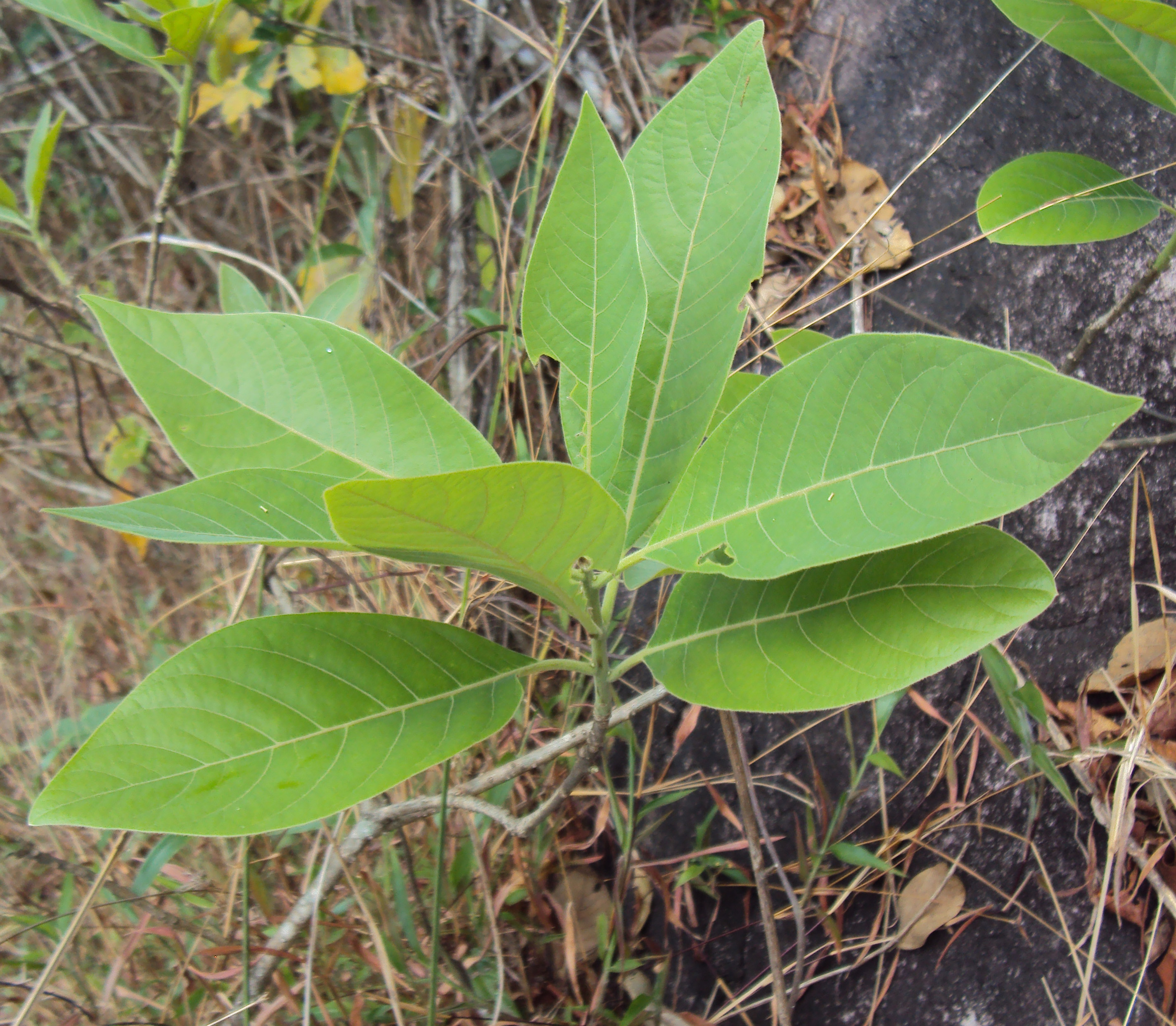 Litsea glutinosa